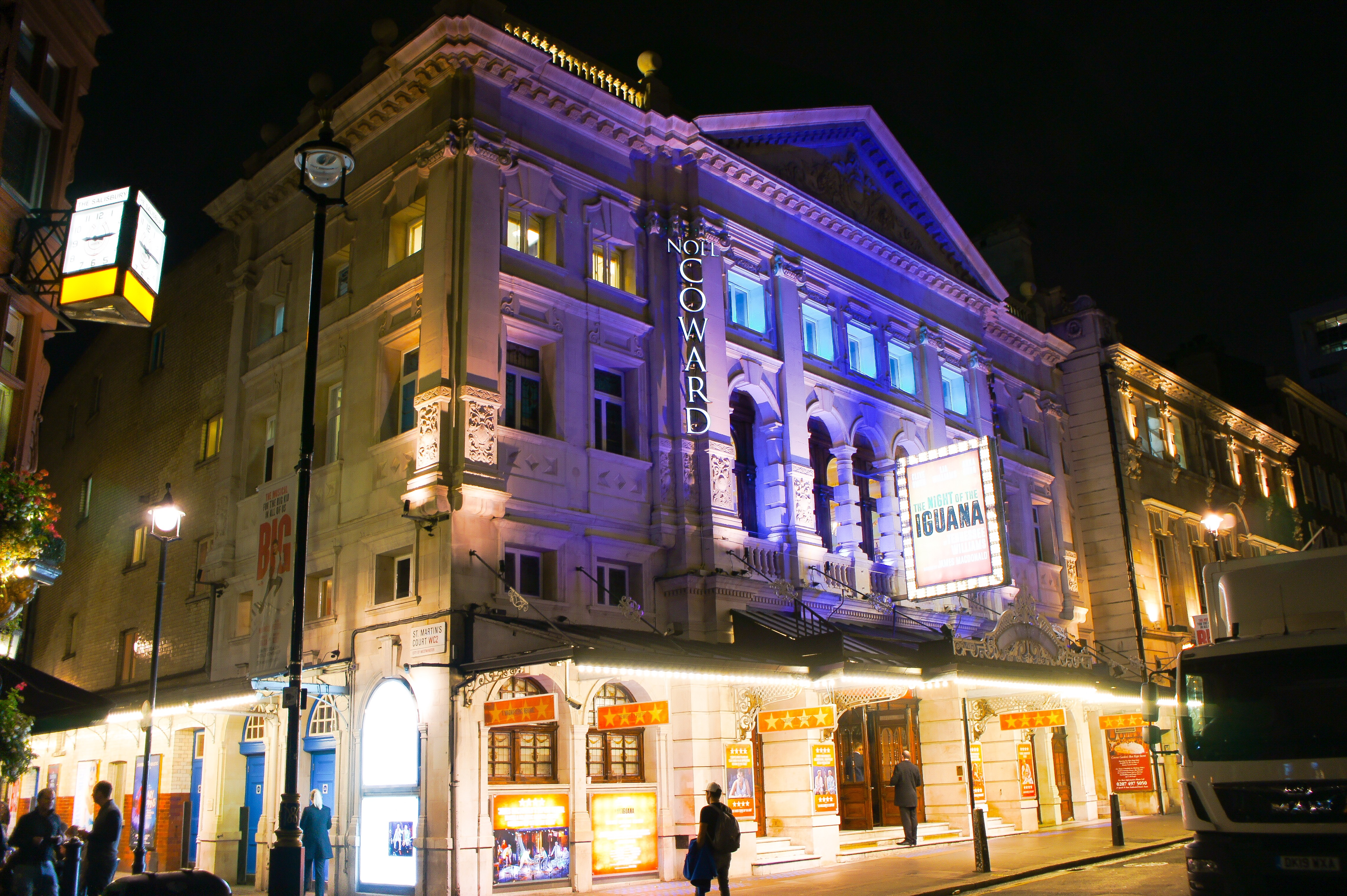 Noël Coward Theatre, London. Photograph taken in a public location in the UK of a building on permanent public display, and exempt from copyright under Section 62 of the Copyright Designs & Patents Act 1988 ("it is not an infringement of copyright to film, photograph, broadcast or make a graphic image of a building, sculpture, models for buildings or work of artistic craftsmanship if that work is permanently situated in a public place or in premises open to the public")